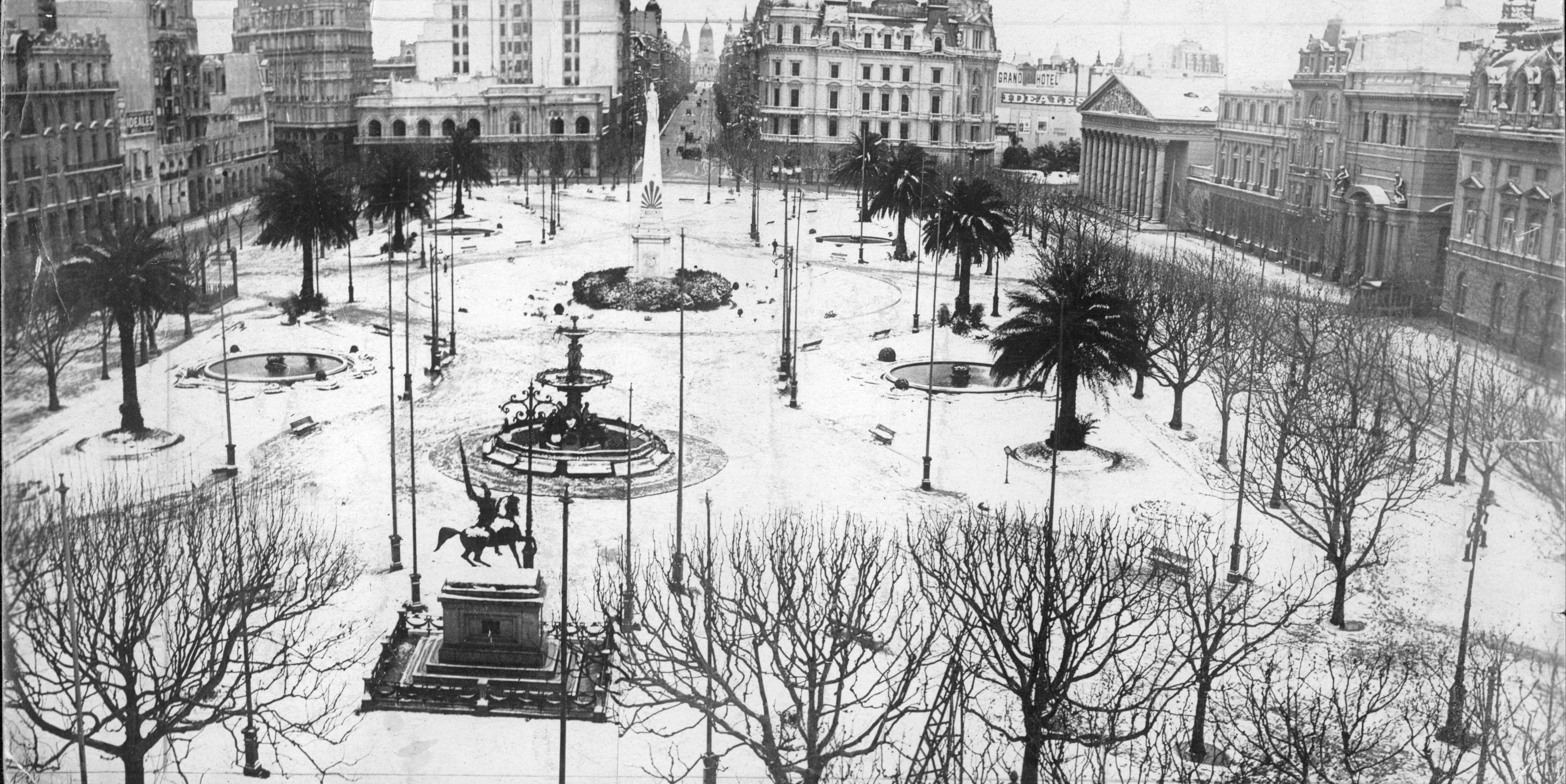 The Plaza de Mayo of Buenos Aires, totally covered by the white snow on June, 1918. That was the only snowfall on the city during the XX Century.